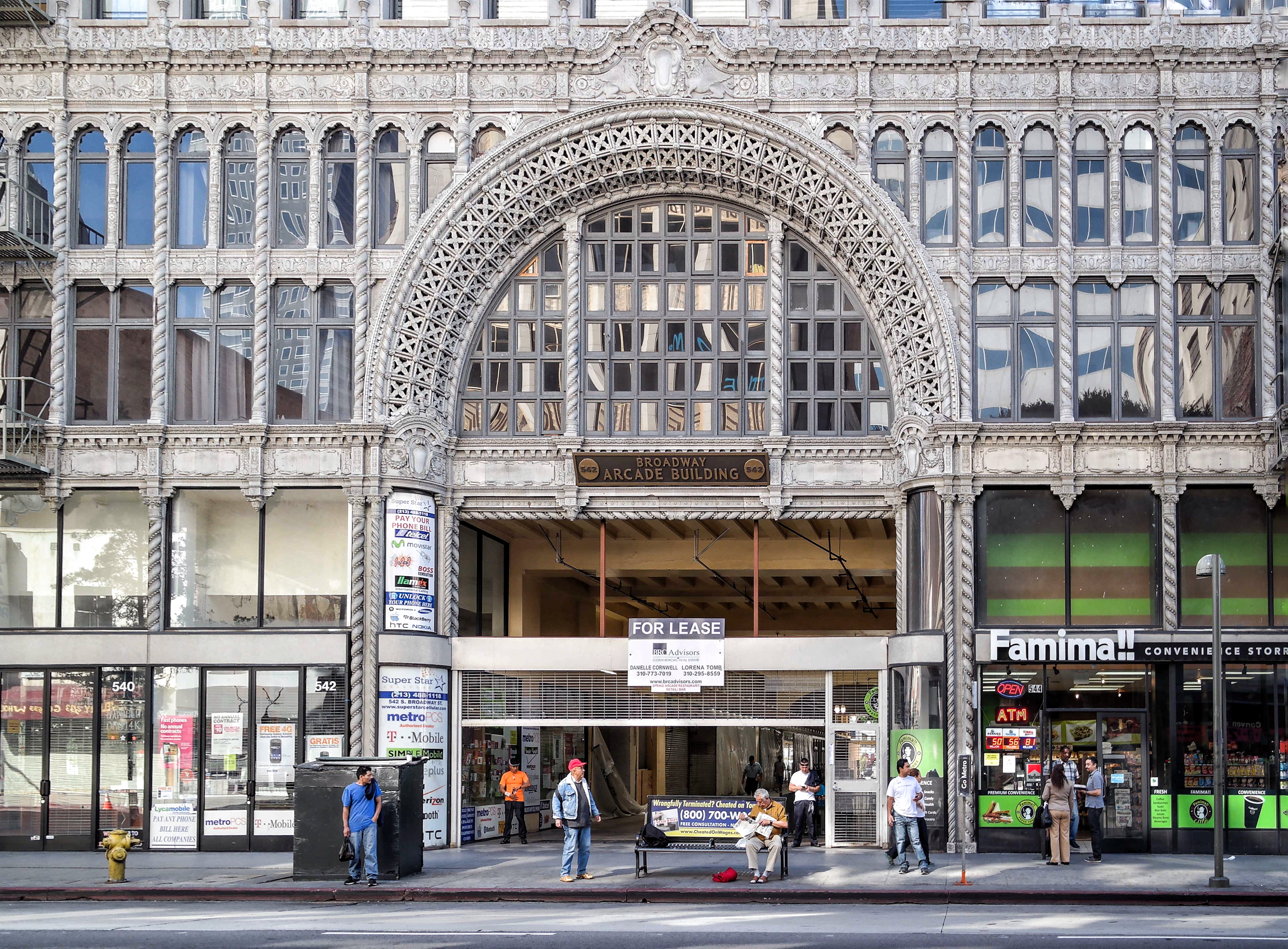 The 1924 Broadway Arcade Building in the Broadway Theater and Commercial District of Los Angeles.